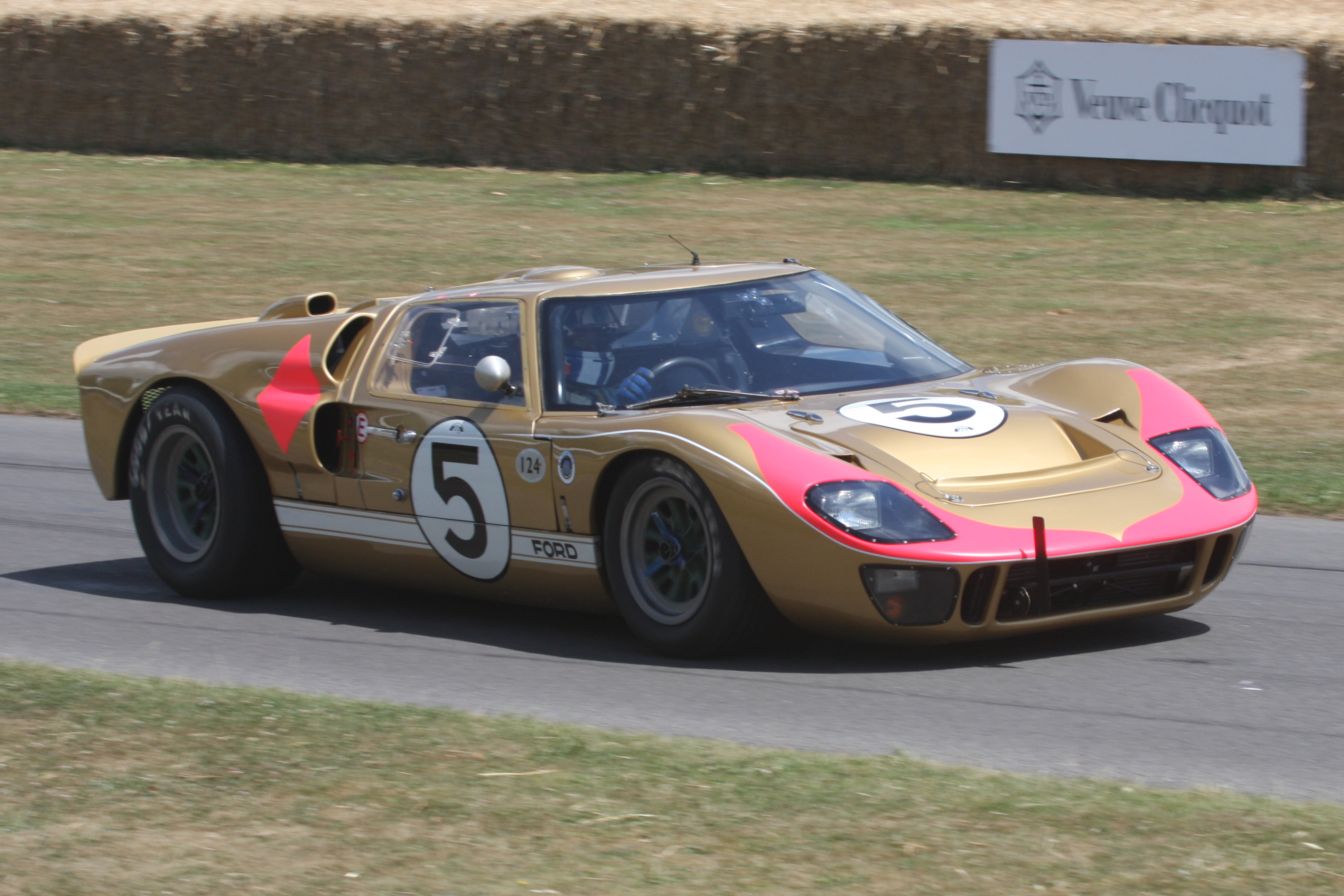 1966 Ford GT Mark II